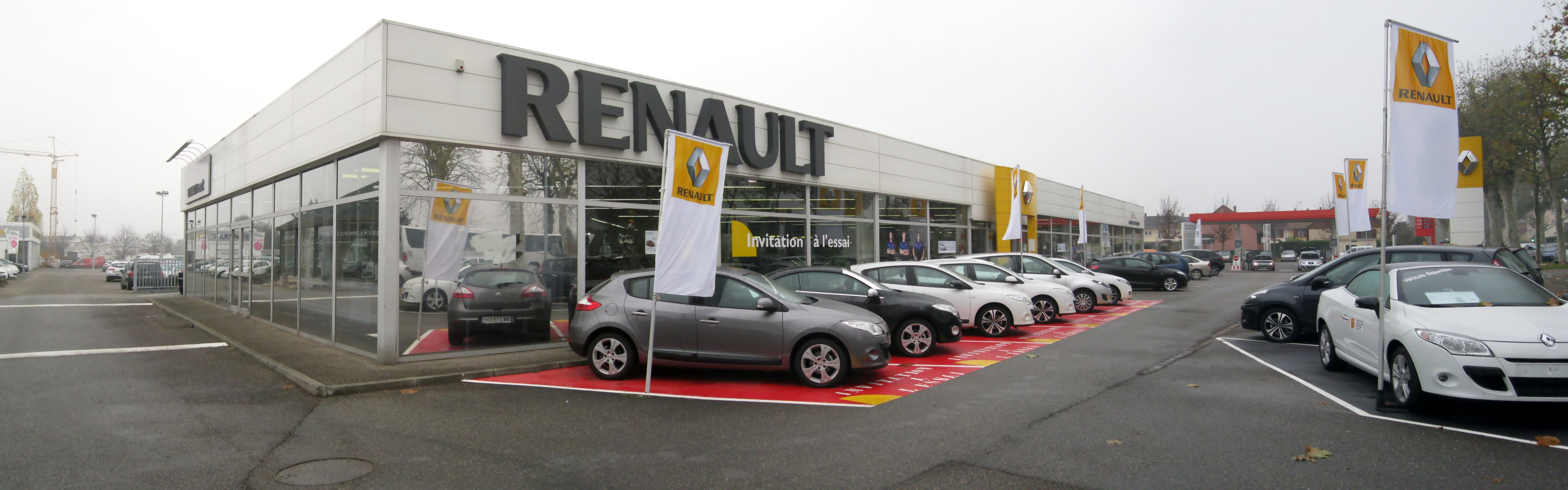 A Renault deal place in Colmar. Made with 19 photos.